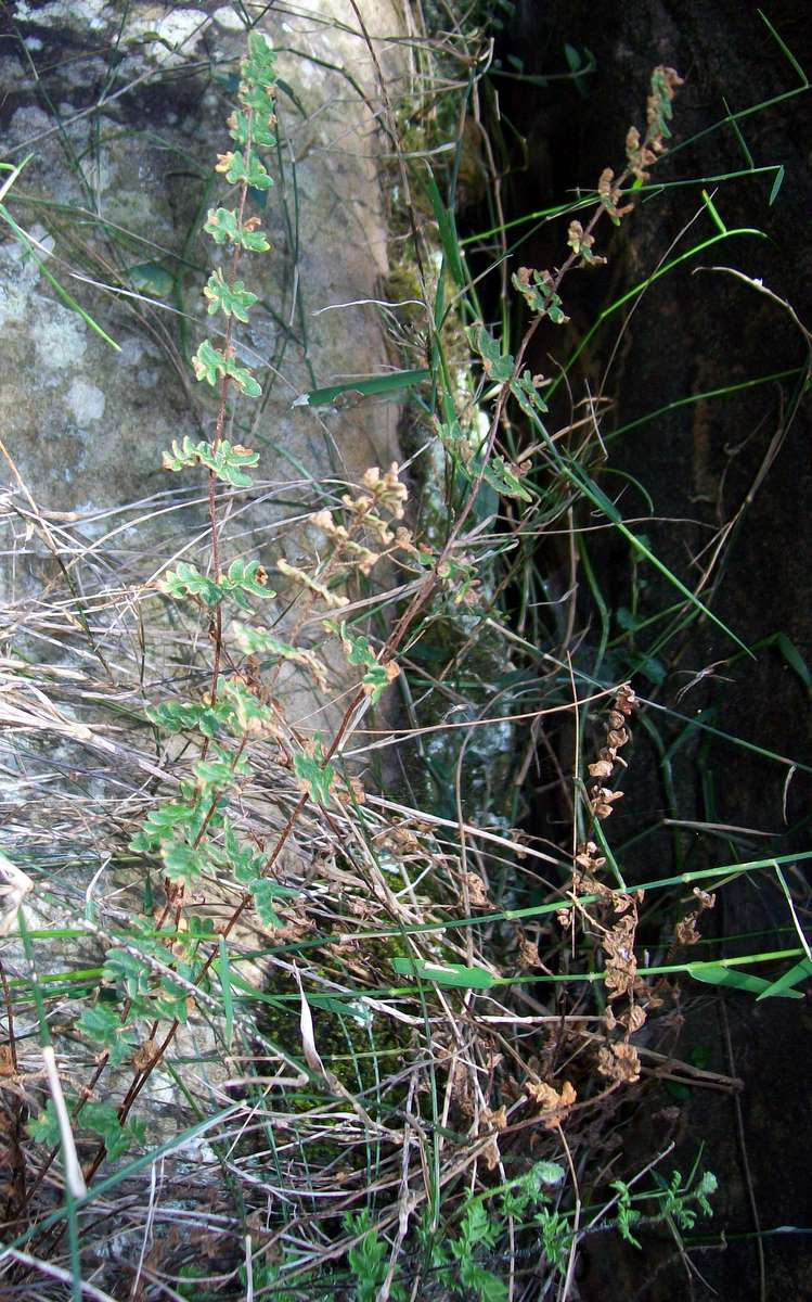 small rock dwelling fern near Resolute Beach, Ku-ring-gai Chase National Park, likely to be Cheilanthes distans